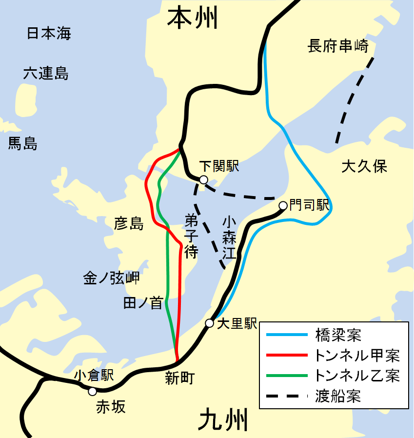 Draft of cross Kammon straight traffic